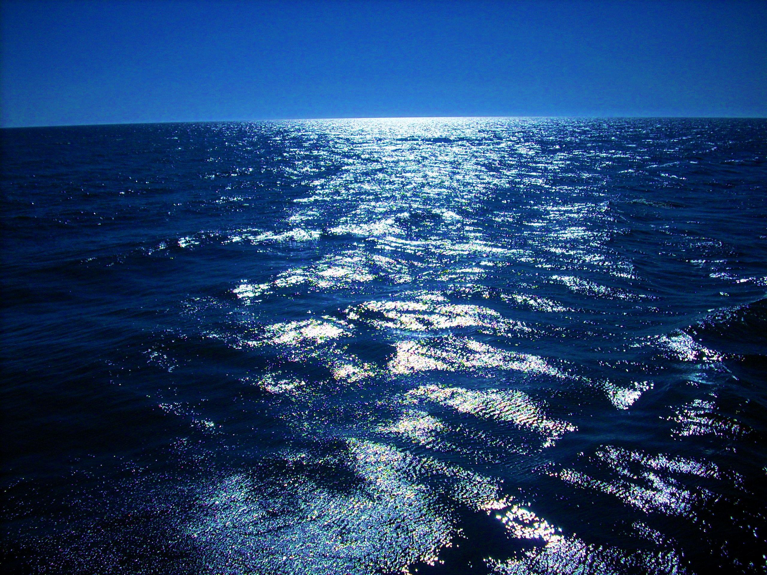 Baltic Sea.